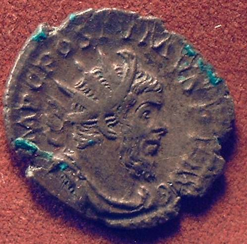 Antoninian of Posthumus